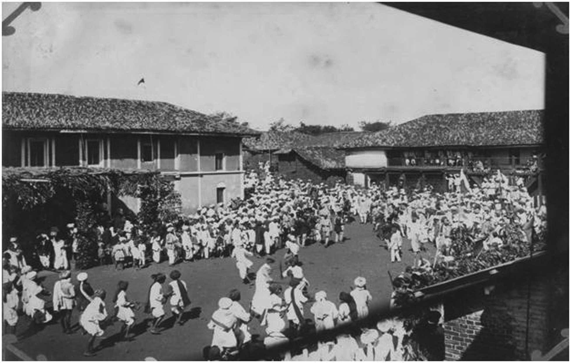 Pant Amatya Wada during ramnavami festival at Gaganbavada